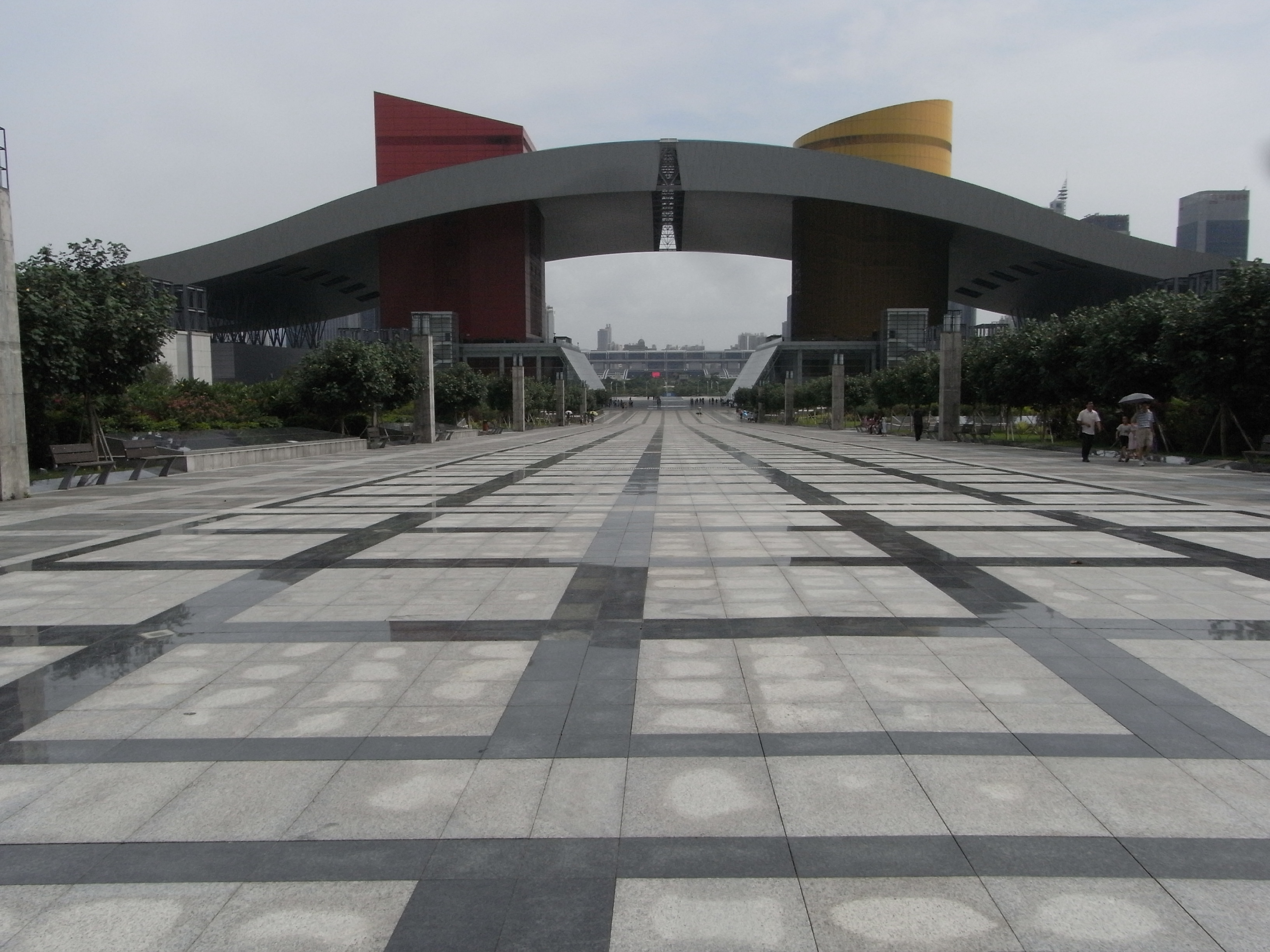 Civic Center